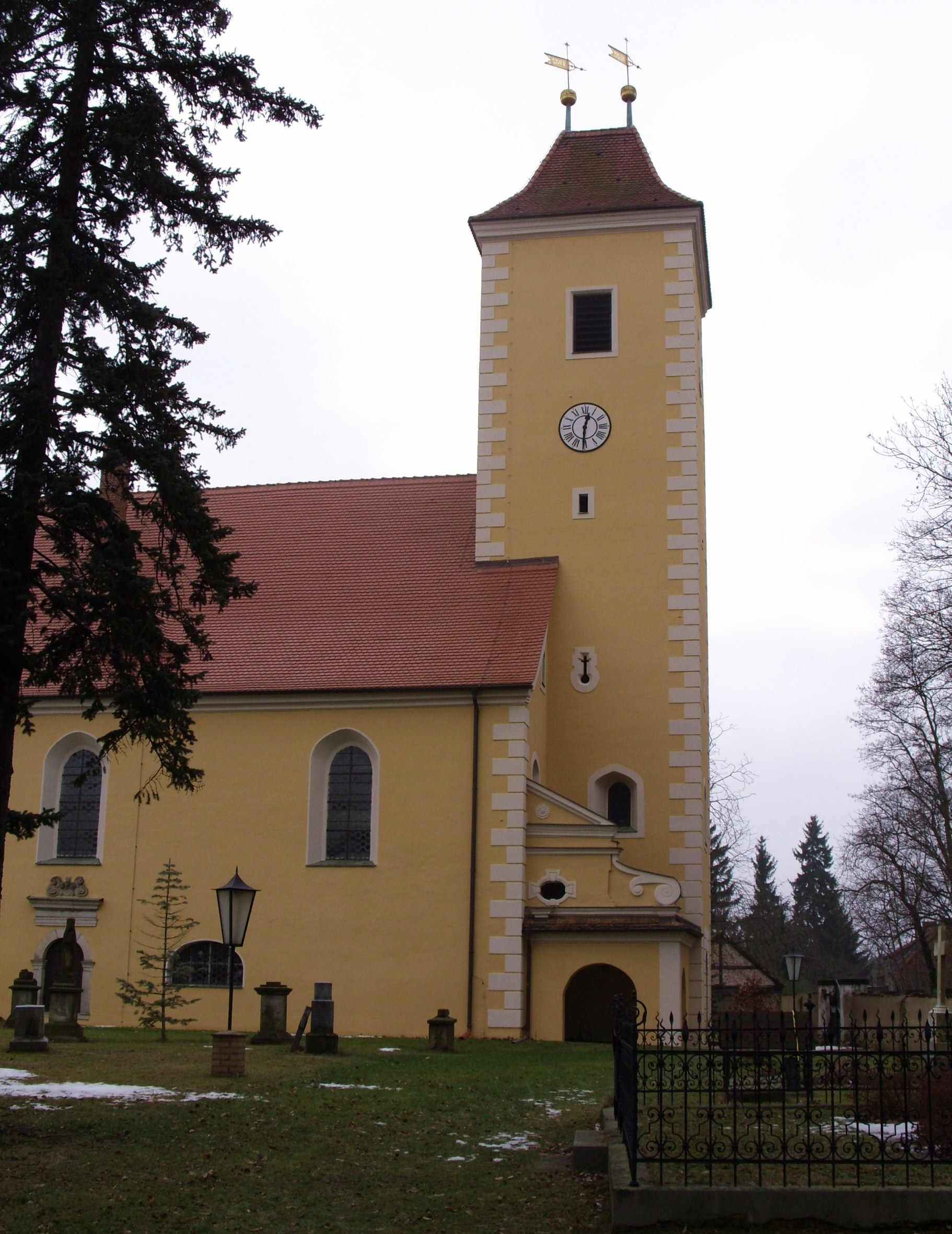 Church in Kreba (sorbian Chrjebja, Görlitz district). Hornjoserbsce: Ewangelska cyrkej w Chrjebi, Zhorjelski wokrjes.